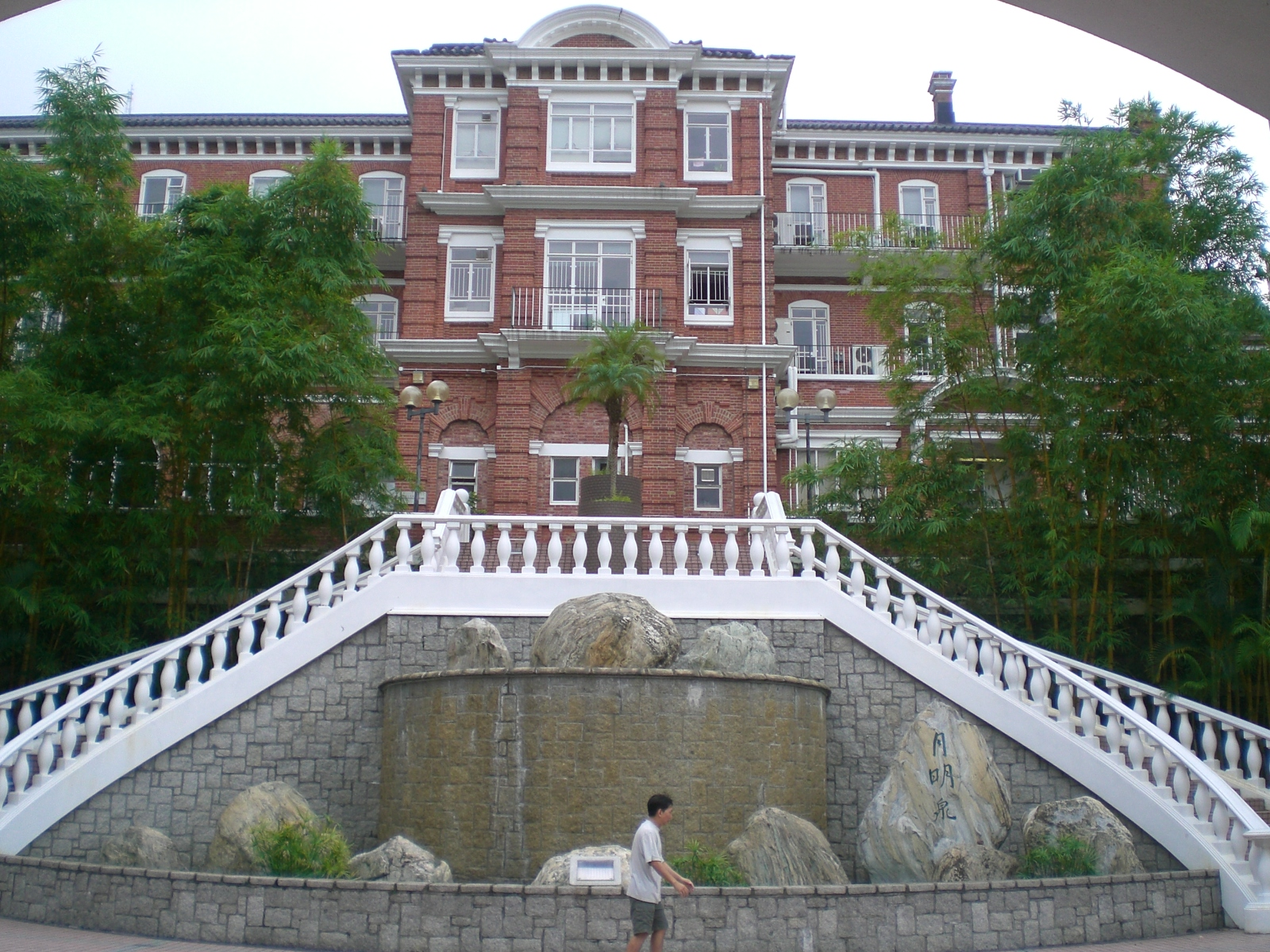 中文（香港）: Description 香港大學梅堂及儀禮堂 Date9 September 2007, 10:19:42SourceOwn workAuthorLiCYM 香港大學梅堂及儀禮堂